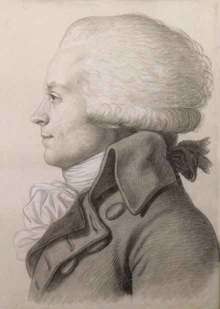 Physionotrace of Maximilien Robespierre, unsigned drawing formerly attributed to Antoine-Paul Vincent. Pencil with white pastel highlights on pink paper, 44 x 39 cm. The visual relationship with the 1792 engraving by Gilles-Louis Chrétien after Jean-Baptiste Fouquet raises the possibility it may be Fouquet's original drawing; the media, dimensions and style also suggest this [1].